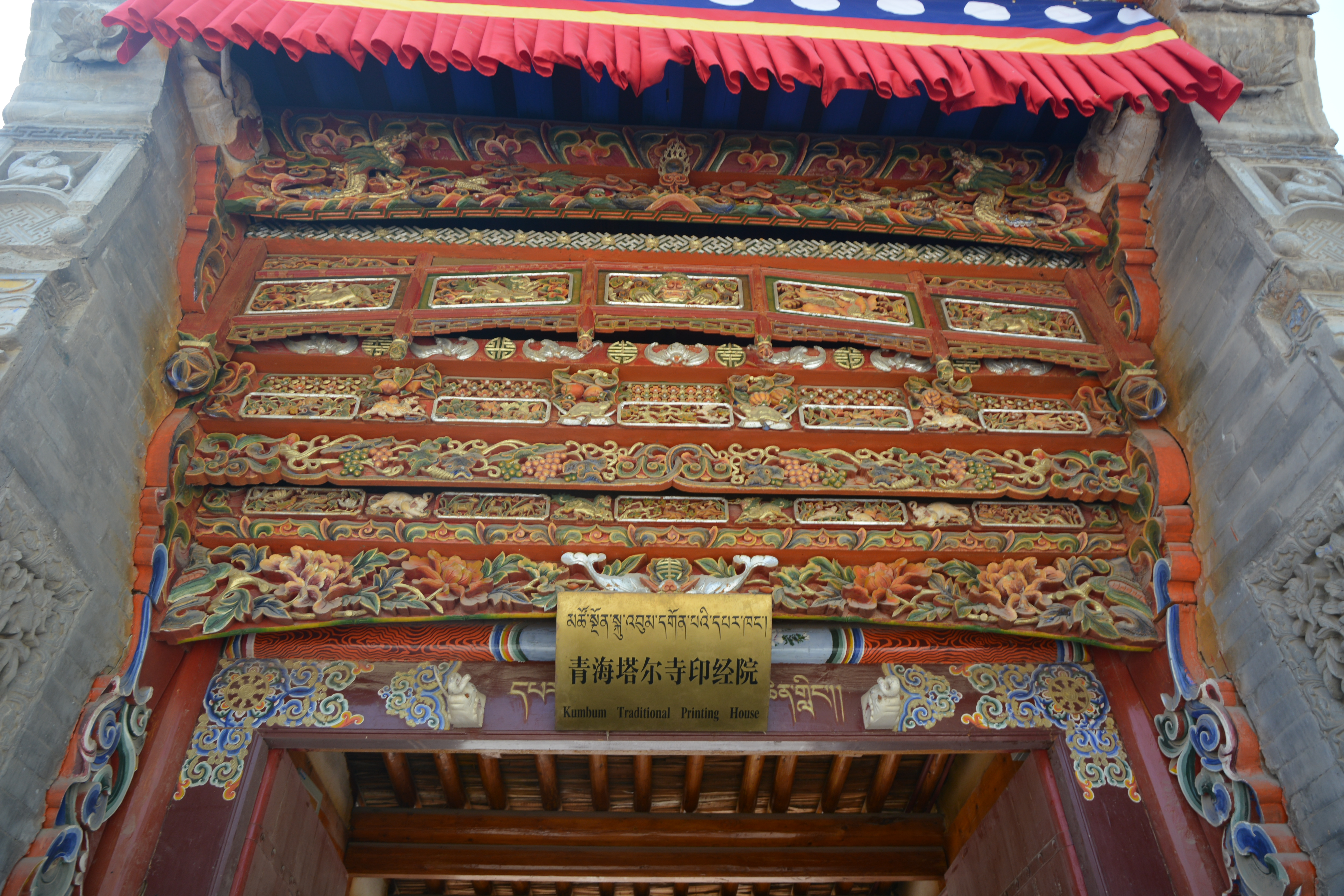 A Cover of Taer Temple